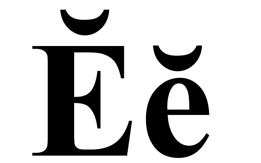 E With Caron